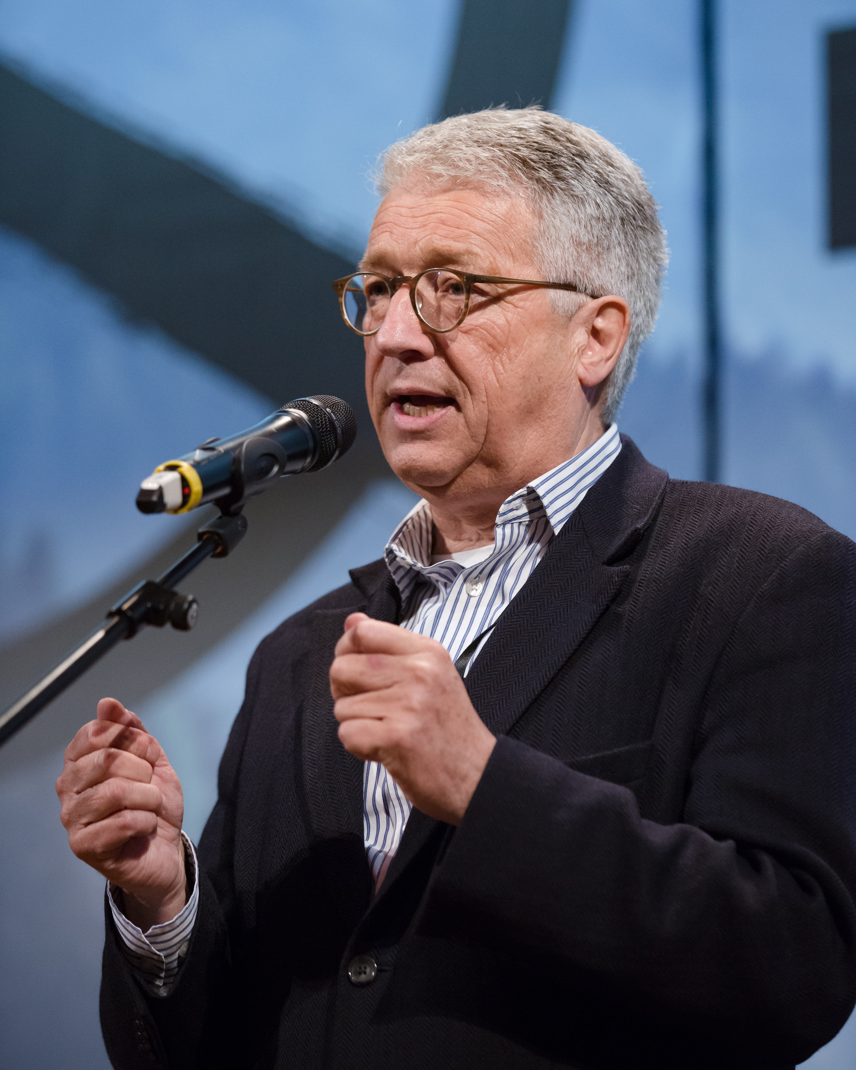 Wolfgang Petritsch at "Stimmen für Van der Bellen" ("Voices for Van der Bellen"), an event by artists supporting him at the Austrian presidential election 2016 (Konzerthaus, Vienna, Austria).